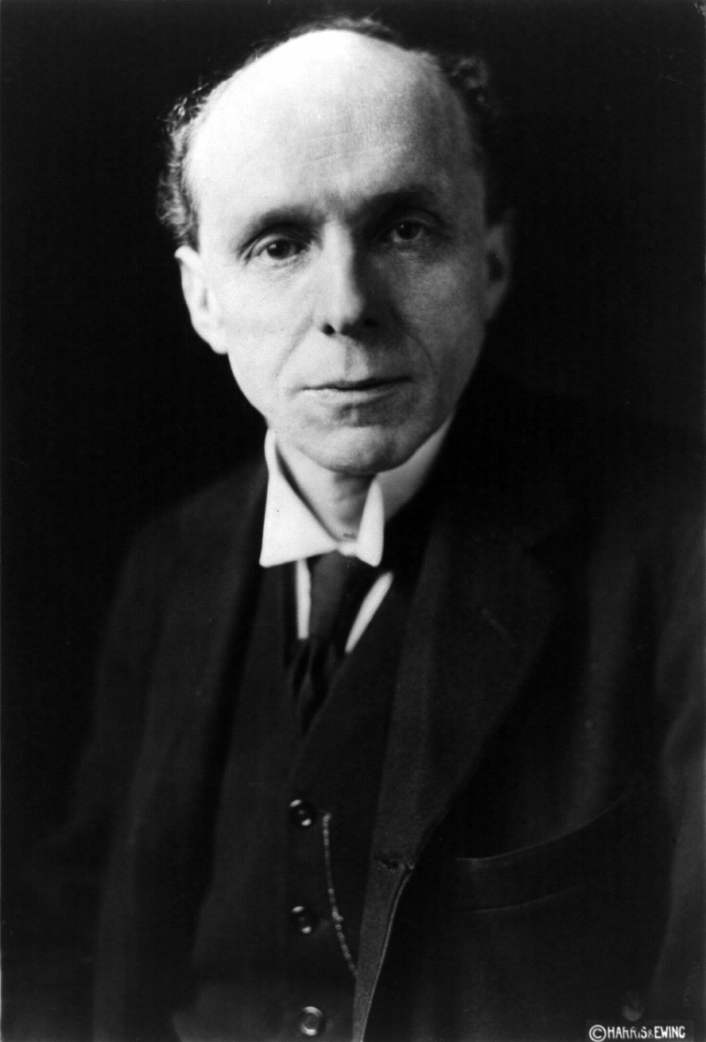 Robert Cecil, 1st Viscount Cecil of Chelwood